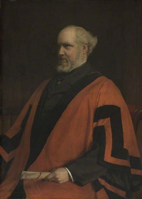 Portrait of James Howard (1822-1899), Mayor of Bedford